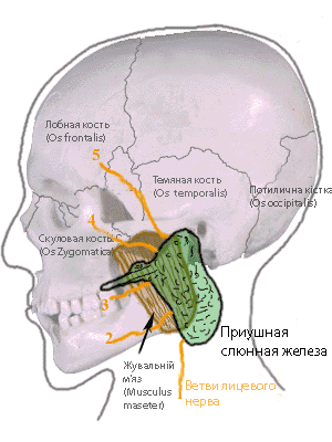 Parotid gland.